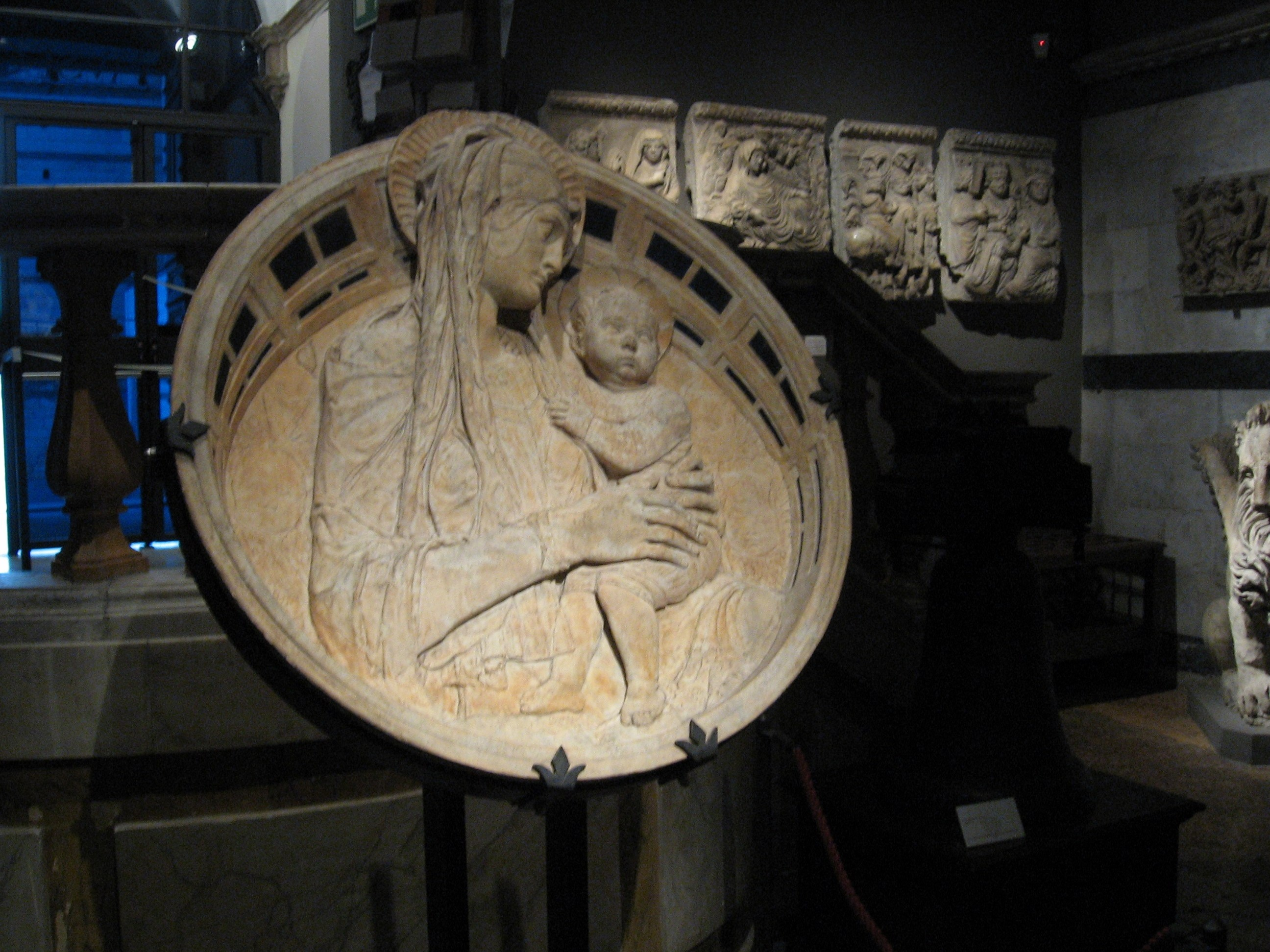 Museo dell'opera del duomo di siena. Donatello, "Madonna and Child" ("Madonna del Perdono").